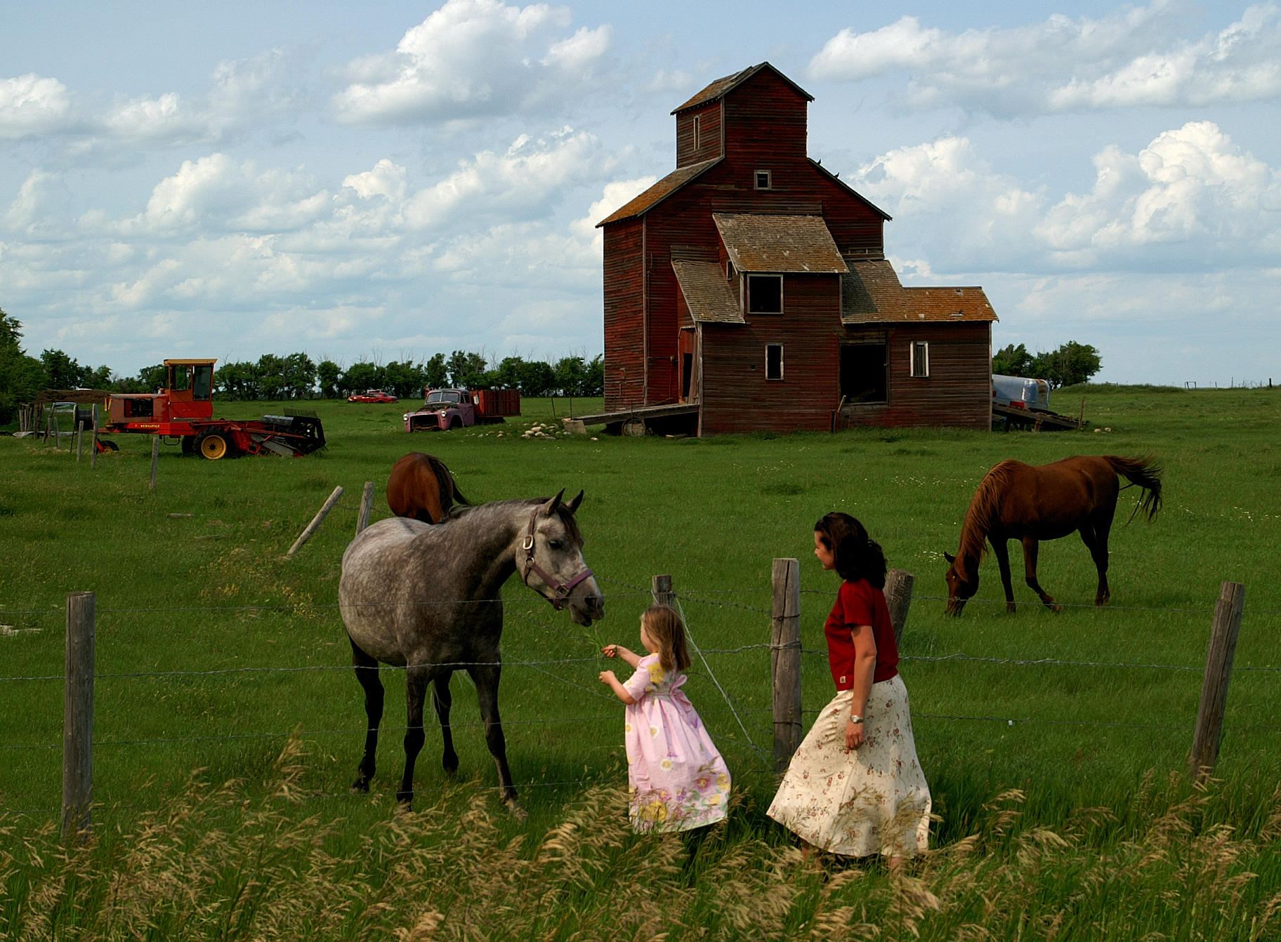 A small grain elevator on a farm near Moose Jaw, Saskatchewan, Canada.